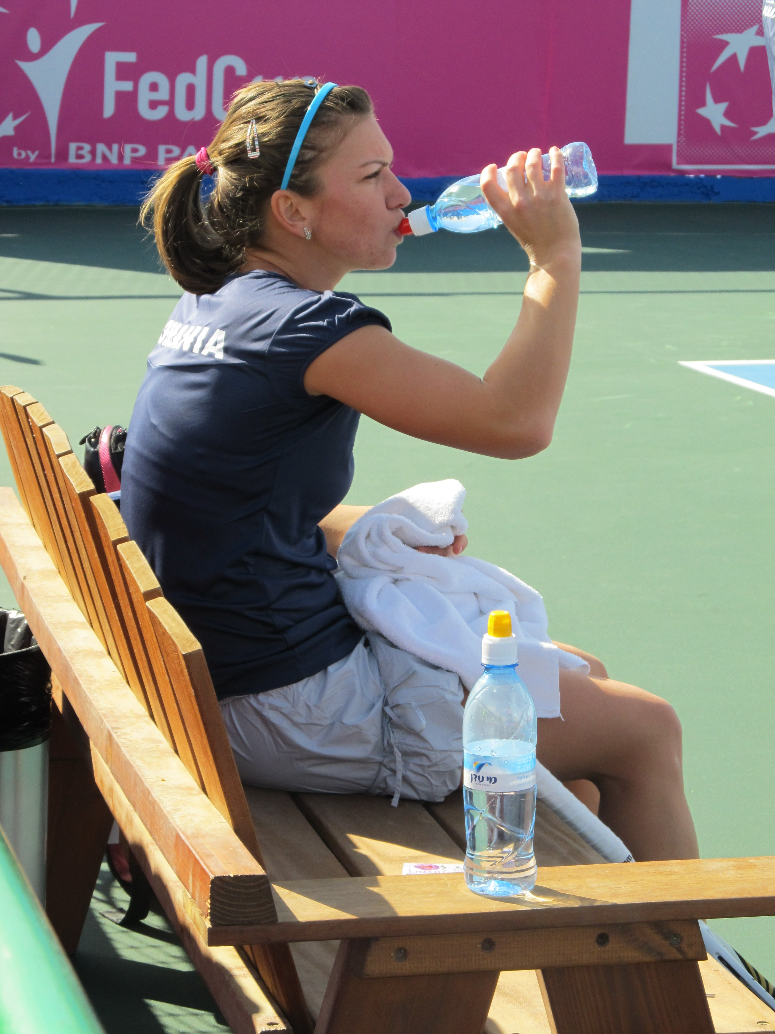 The tennis player Simona Halep of Romania during her match against Ani Mijačika of Croatia in the 1st day of Fed Cup Group I 2012 Europe/ Africa in Eilat, Israel